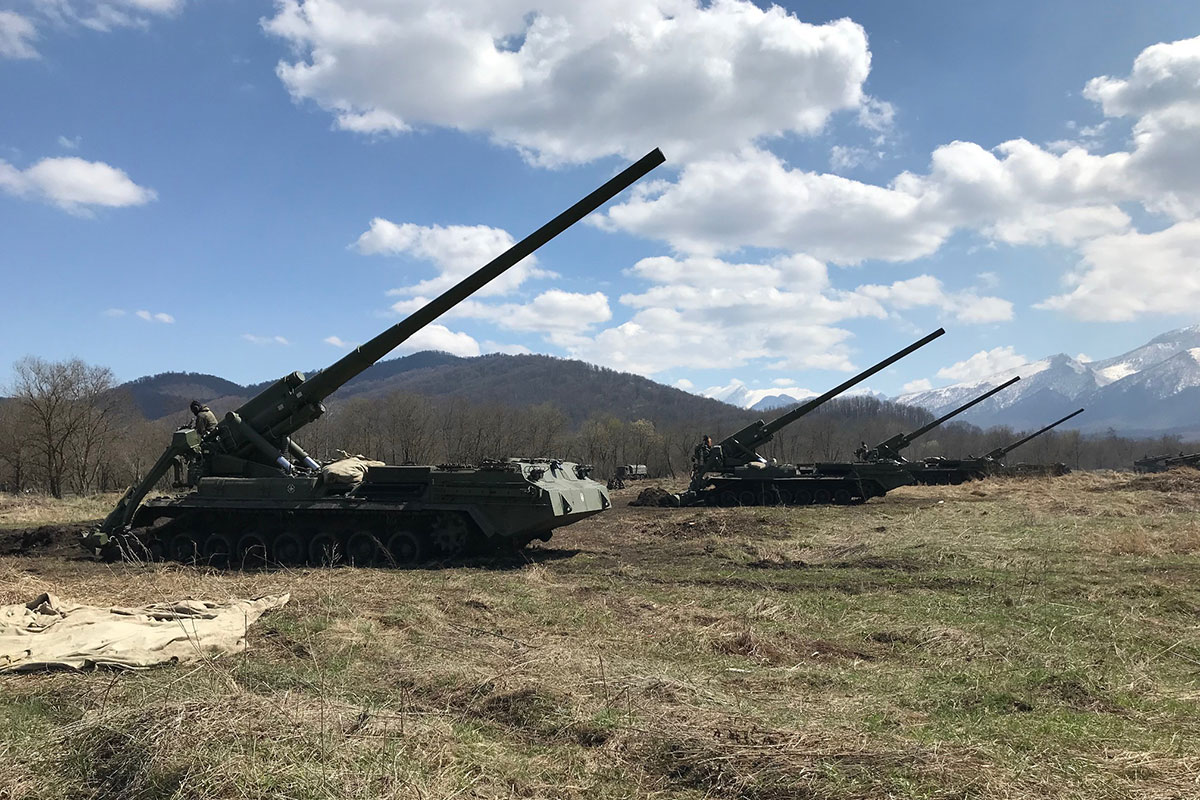 2S7M Malka of the 291st Artillery Brigade.